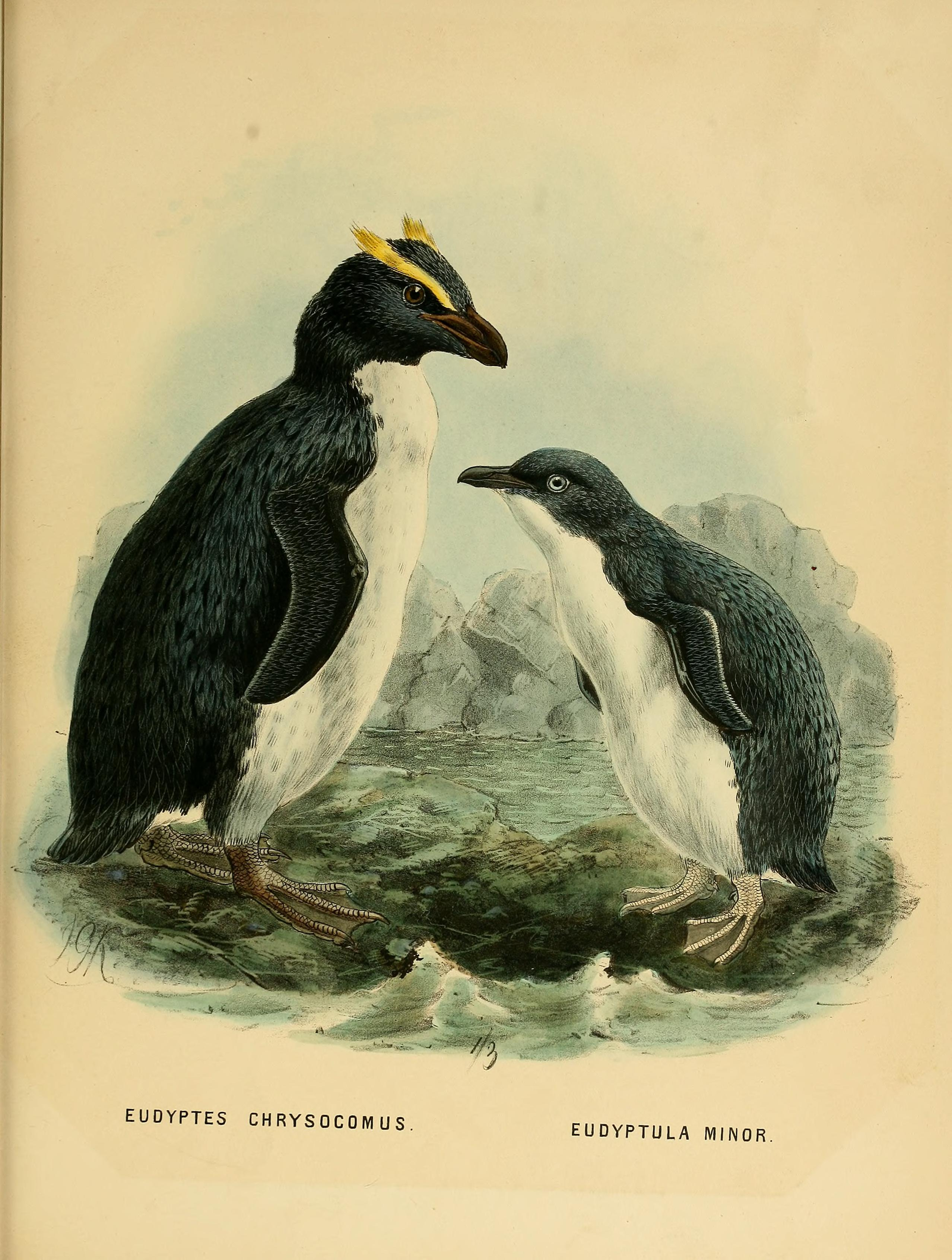 Illustration of the Rockhopper Penguin and the Little Penguin. Māori: ?, Kororā